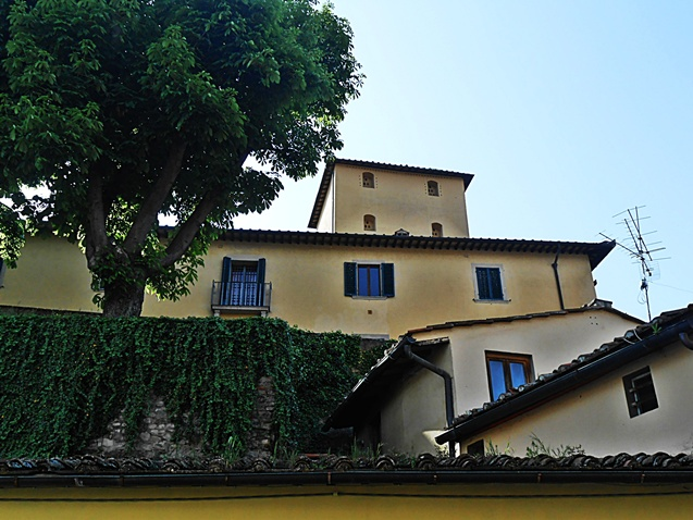 Villa Schifanoia